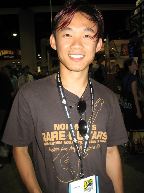 Meeting with James Wan at Comic Con 2007. He was there to promote Death Sentence and I was able to spot him wandering the convention floor unnoticed.